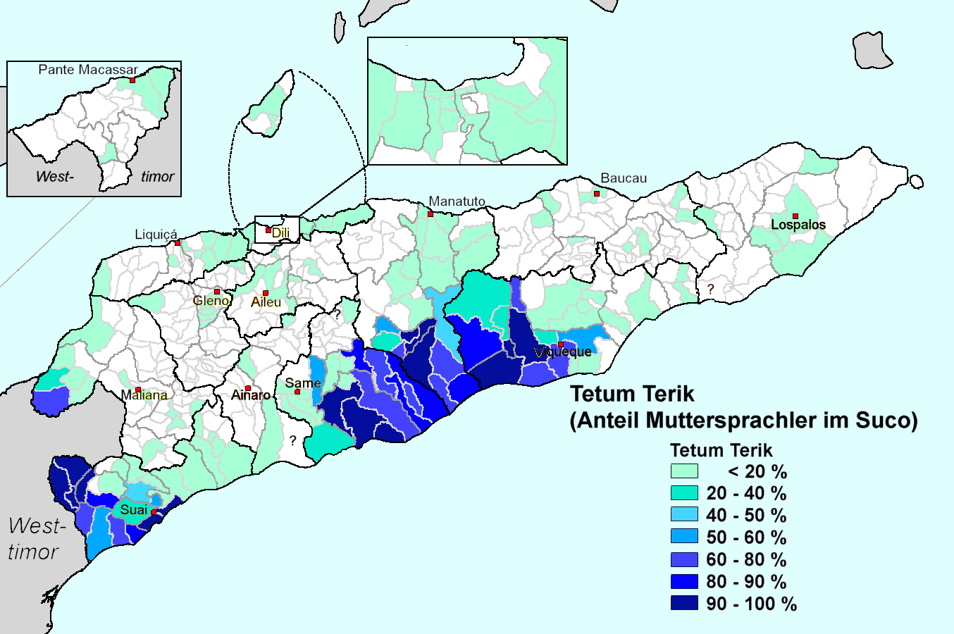 Percentage of people using Tetum Terik as mother tongue in sucos of East Timor (Timor-Leste), according census 2010